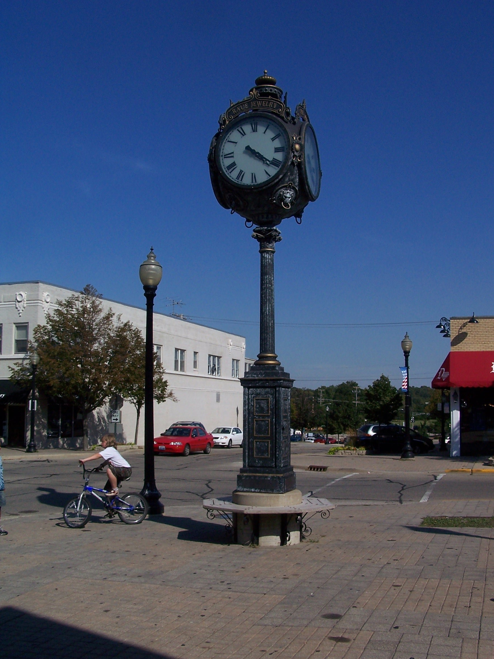 Clock located at intersection of Williams and Brink Streets, downtown Crystal Lake, Illinois.